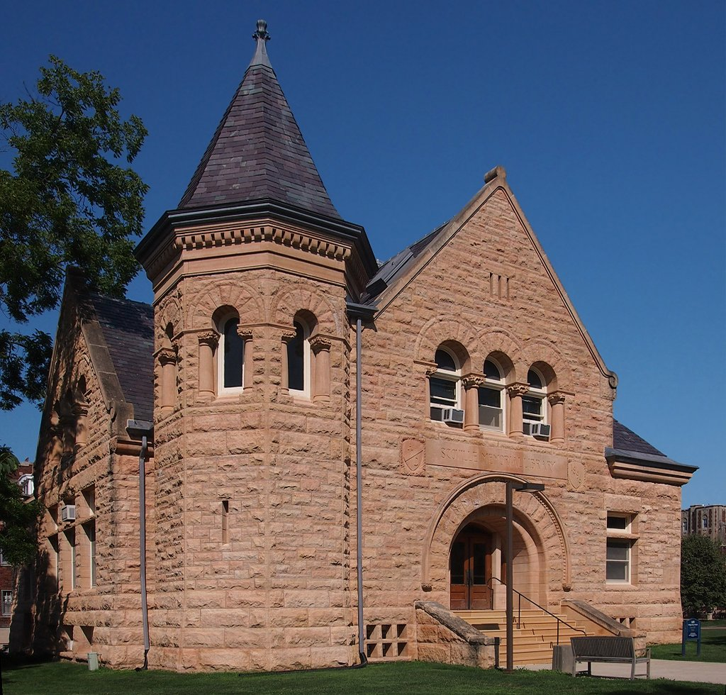 Scoville Memorial Library, Carlton College, Minnesota, USA. Viewed from the southeast, corrected for tilt distortion.